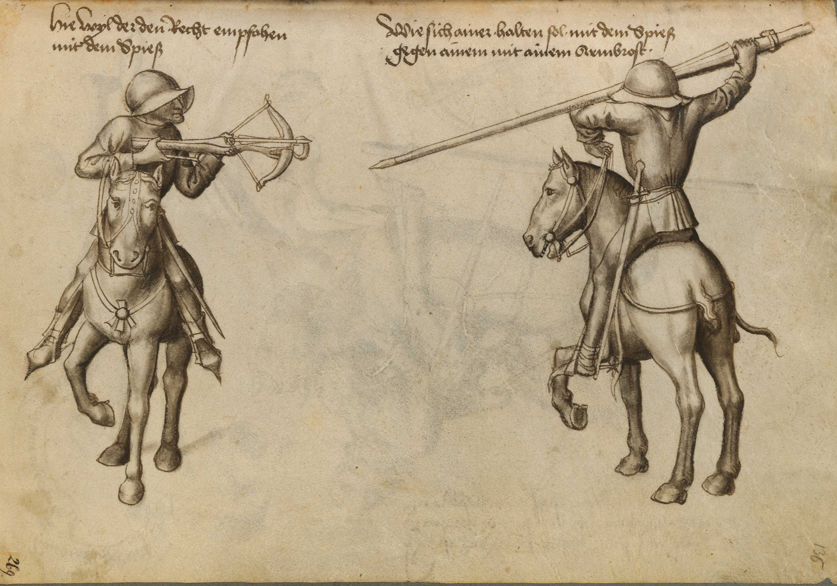 This is a scan of the historical Fechtbuch ('fencing book') by German fencing master Hans Talhoffer.